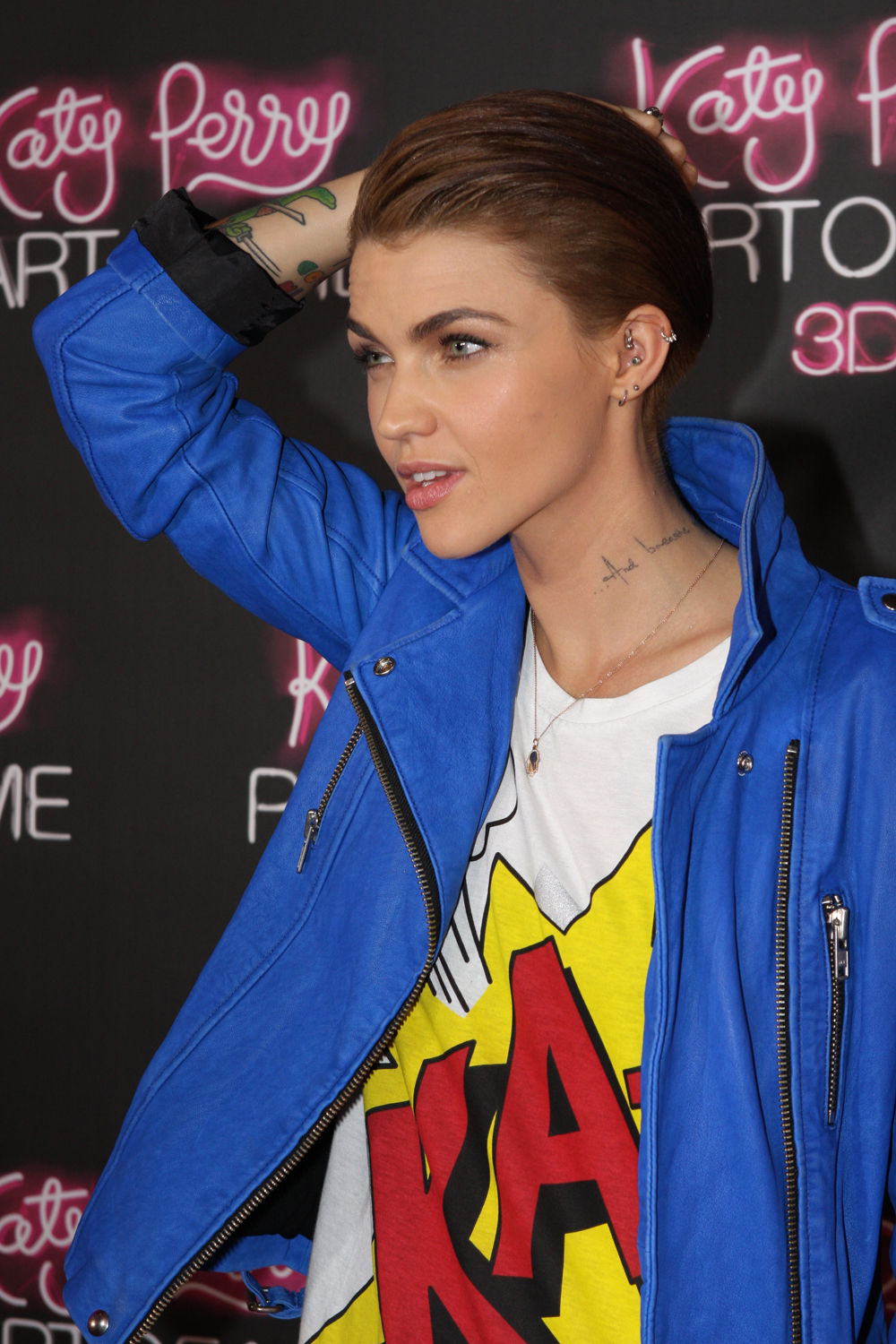 Katy Perry 'Part Of Me' movie premiere in Sydney, Australia Tonight Katy Perry walked the red carpet in Sydney, Australia, as she premiered her new movie 'Part Of Me'. Hundreds of fans and dozens of news media were on had to witness the star promoting her new movie. Yes, there's the element of Katy getting over ex Russell Brand, and so much more. The movie sees Katy eclipse her already mega national and international success and early reports indicates the movie has won over fans and critics alike. Go girl. News Update: Katy Perry plans career break... Singer and buddy actor, Katy Perry, is planning to take a break from her busy career to cope with the split from husband Russell Brand. "I'm going to go into major hiding. I think I'll have to after this movie comes out. I am going to get a globe and spin it and point my finger at a place and then head there. I have always wanted to do that since I was a little kid". The singer reportedly also told her entourage the same thing. Katy Perry: Part Of Me - credits... Directors: Dan Cutforth, Jane Lipsitz Stars: Katy Perry, Shannon Woodward and Lucas Kerr Katy Perry - Herself Shannon Woodward - Herself Lucas Kerr - Boyfriend Rachael Markarian - Herself Mia Moretti - Herself Glen Ballard Himself Websites Katy Perry 'Part Of Me' official website Katy Perry official website Paramount Pictures Australia Event Cinemas Eva Rinaldi Photography Eva Rinaldi Photography Flickr Music News Australia